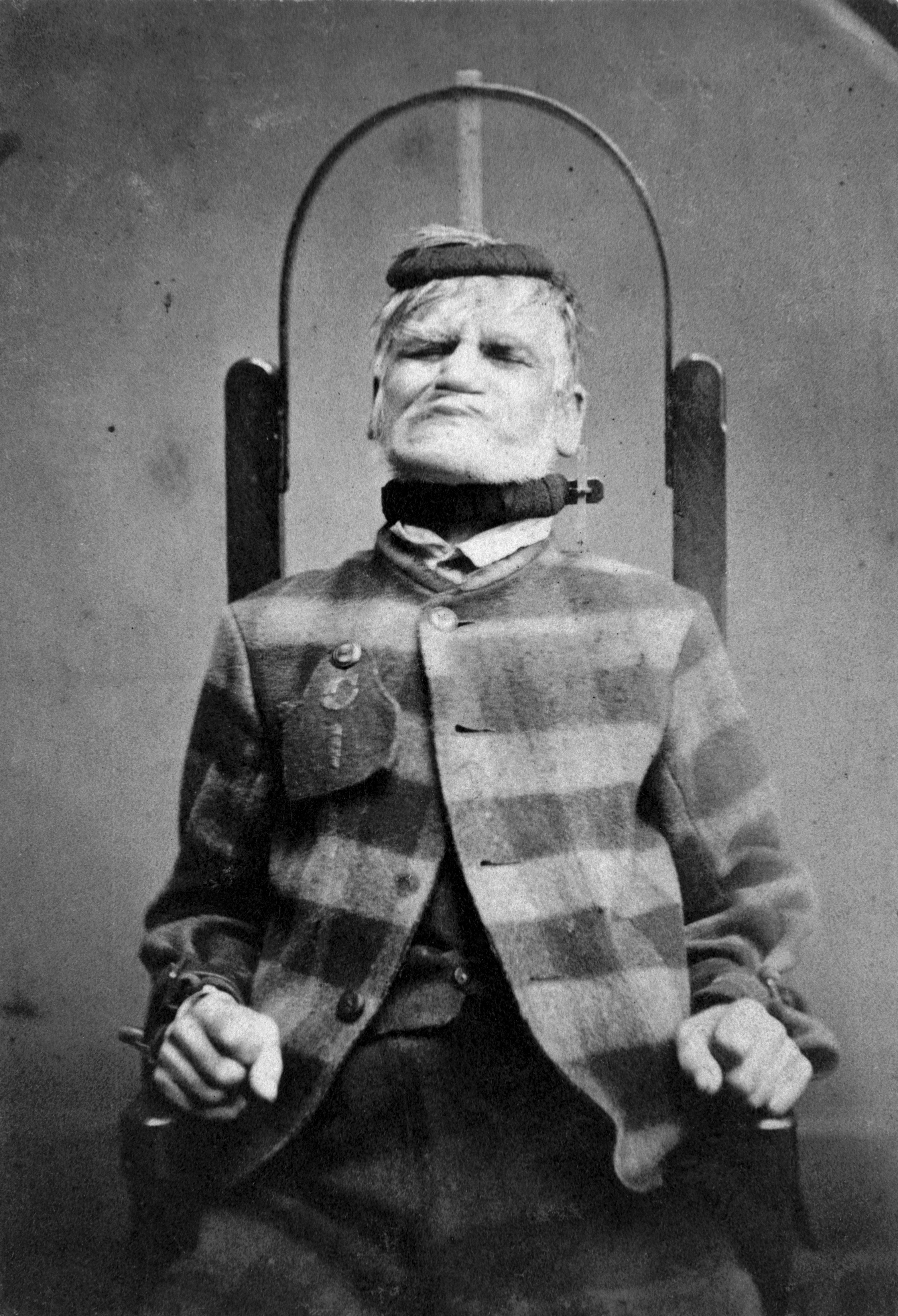 Patients at the West Riding Lunatic Asylum, Wakefield, Yorkshire; attributed to Henry Clarke; number 14, elderly man wearing checkered uniform, in restraint chair. Iconographic Collections Keywords: Psychiatry; Henry Clarke